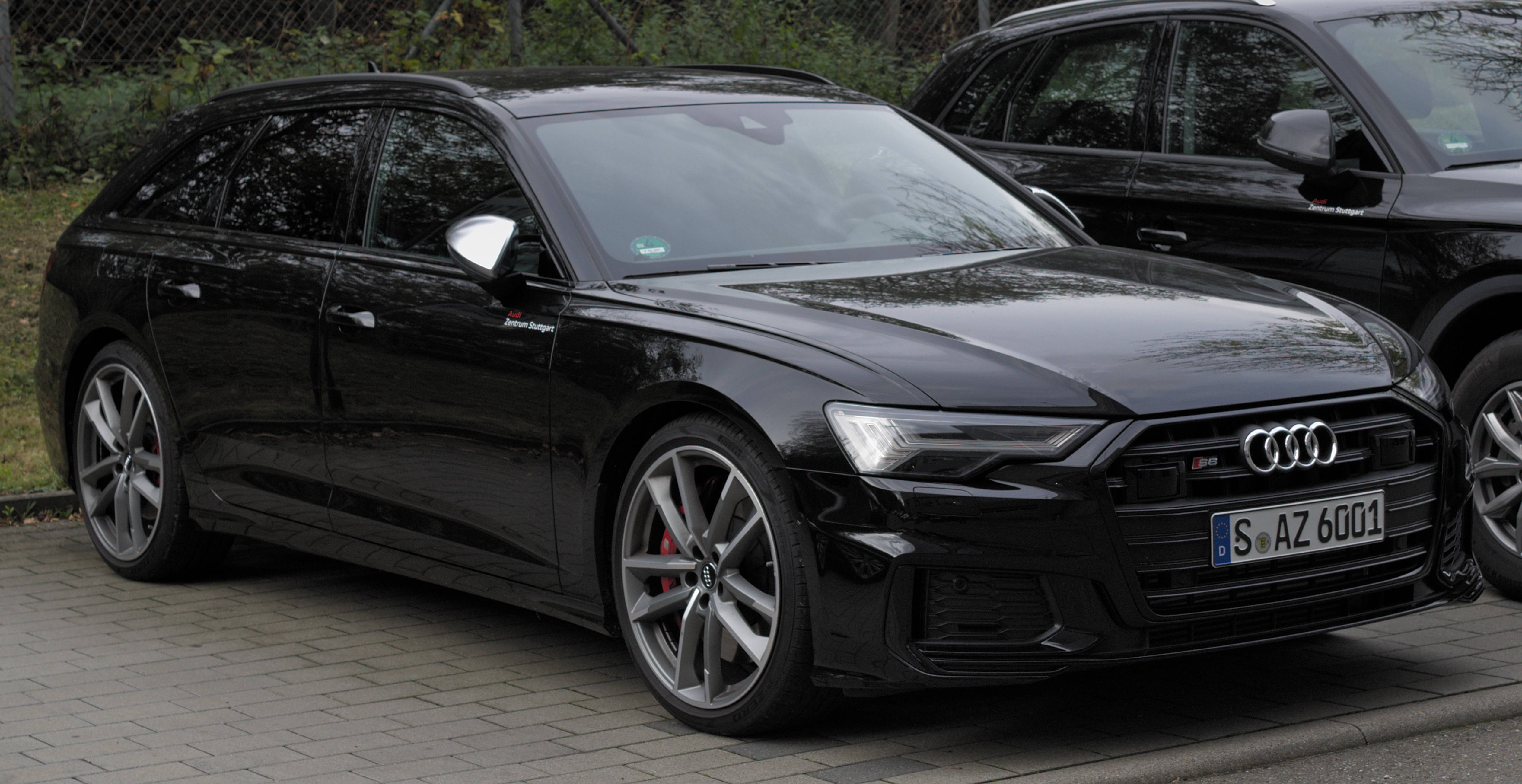 Audi_S6_Avant_C8 in Stuttgart-Vaihingen